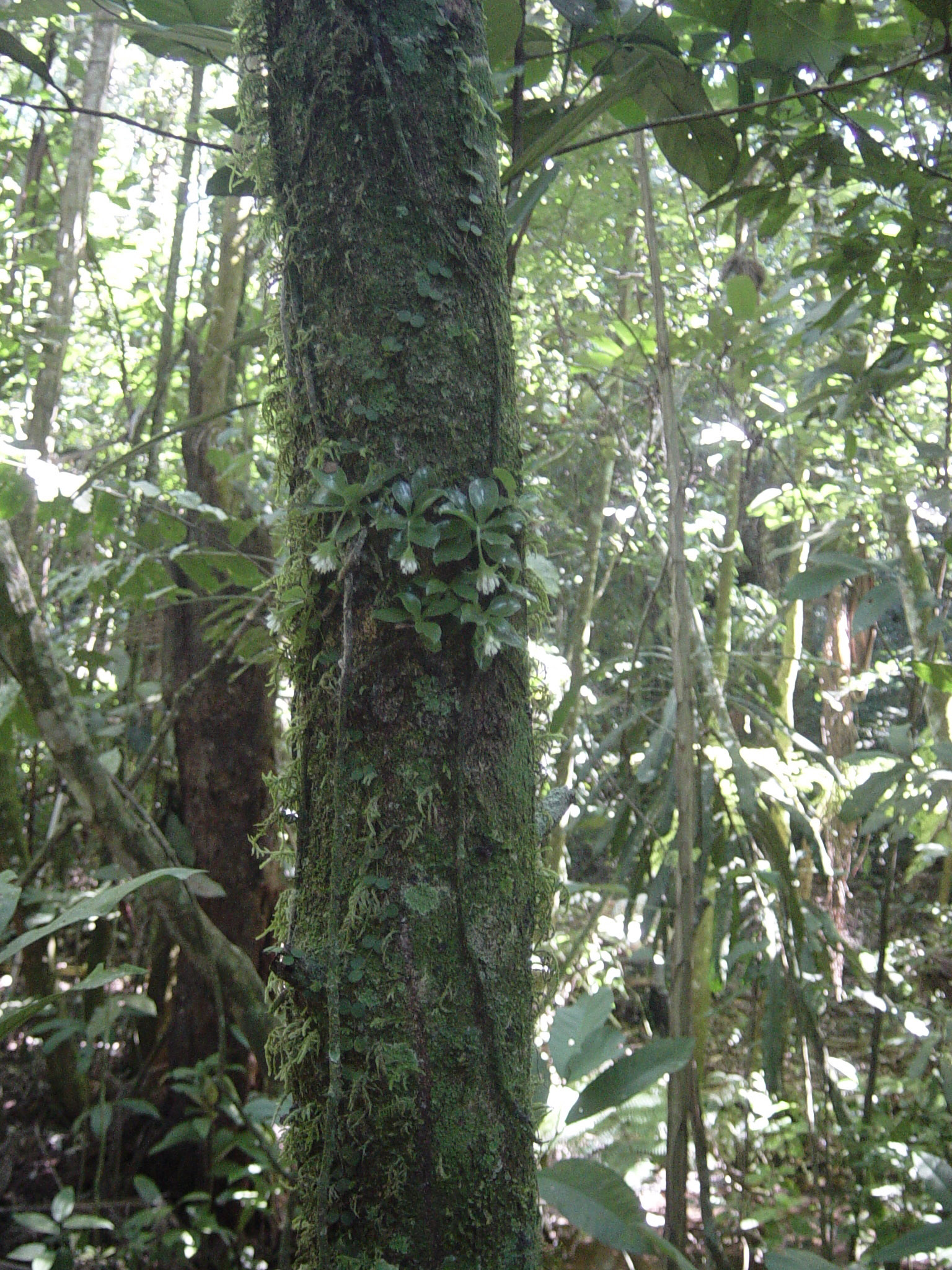 Eurystyles actinosophila growing on its habitat in Sao Paulo State, Brazil